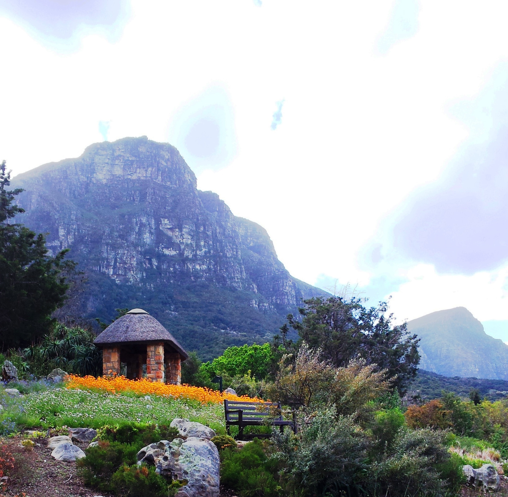 Kirstenbosch botanical gardens in Cape Town RSA